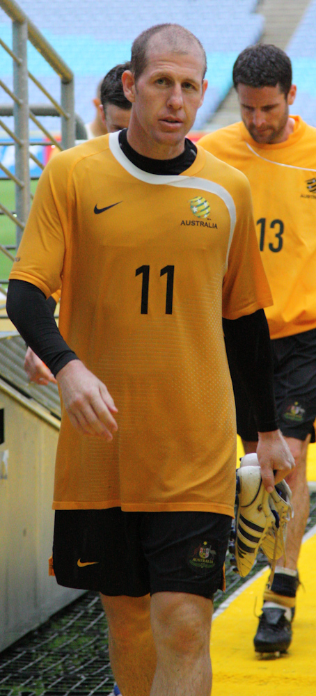 Scott Chipperfield after a training session at ANZ Stadium the day before a World Cup Qualifying game against Uzbekistan.